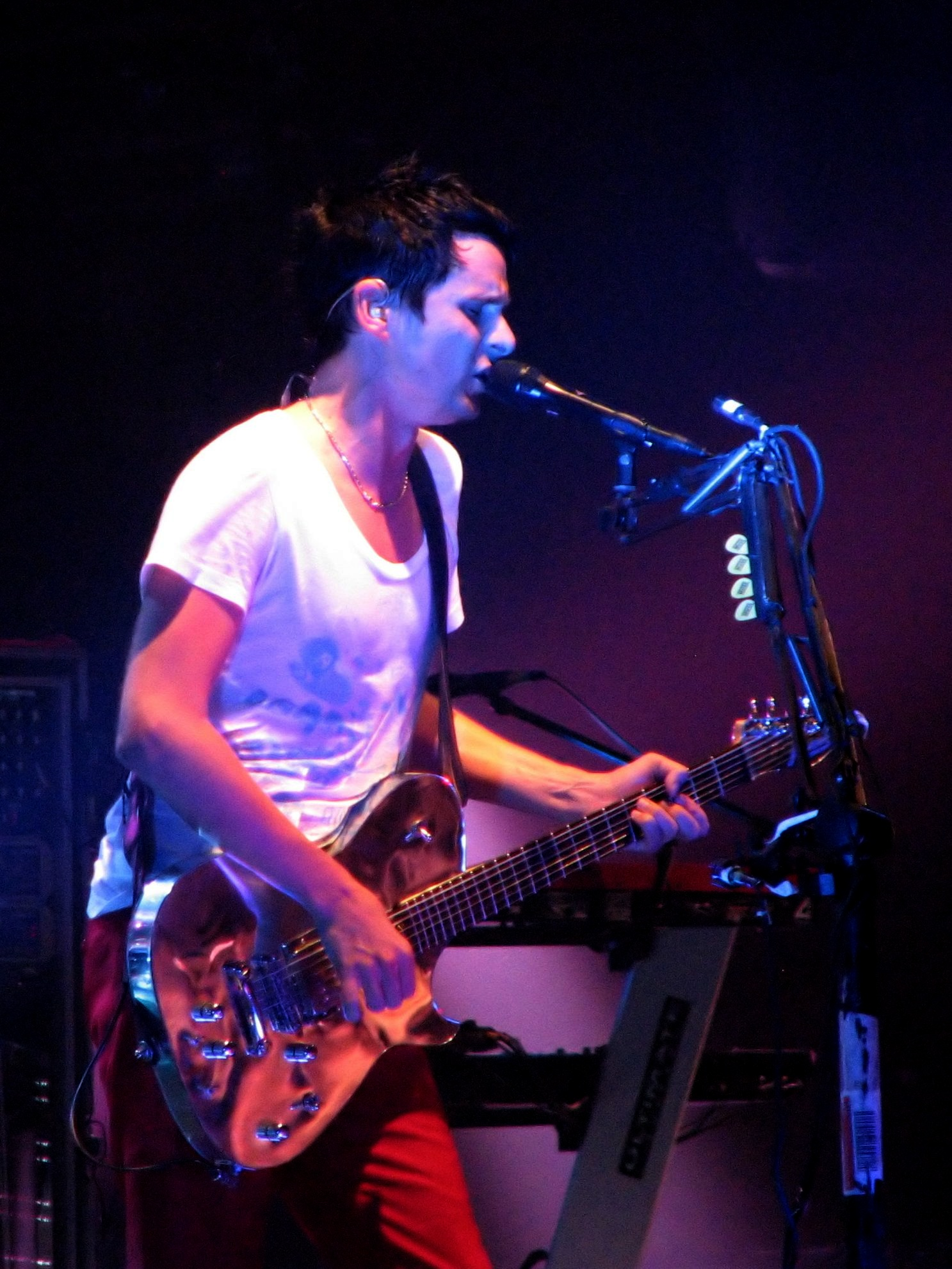 Matthew Bellamy of British rock band Muse playing live in Toronto.